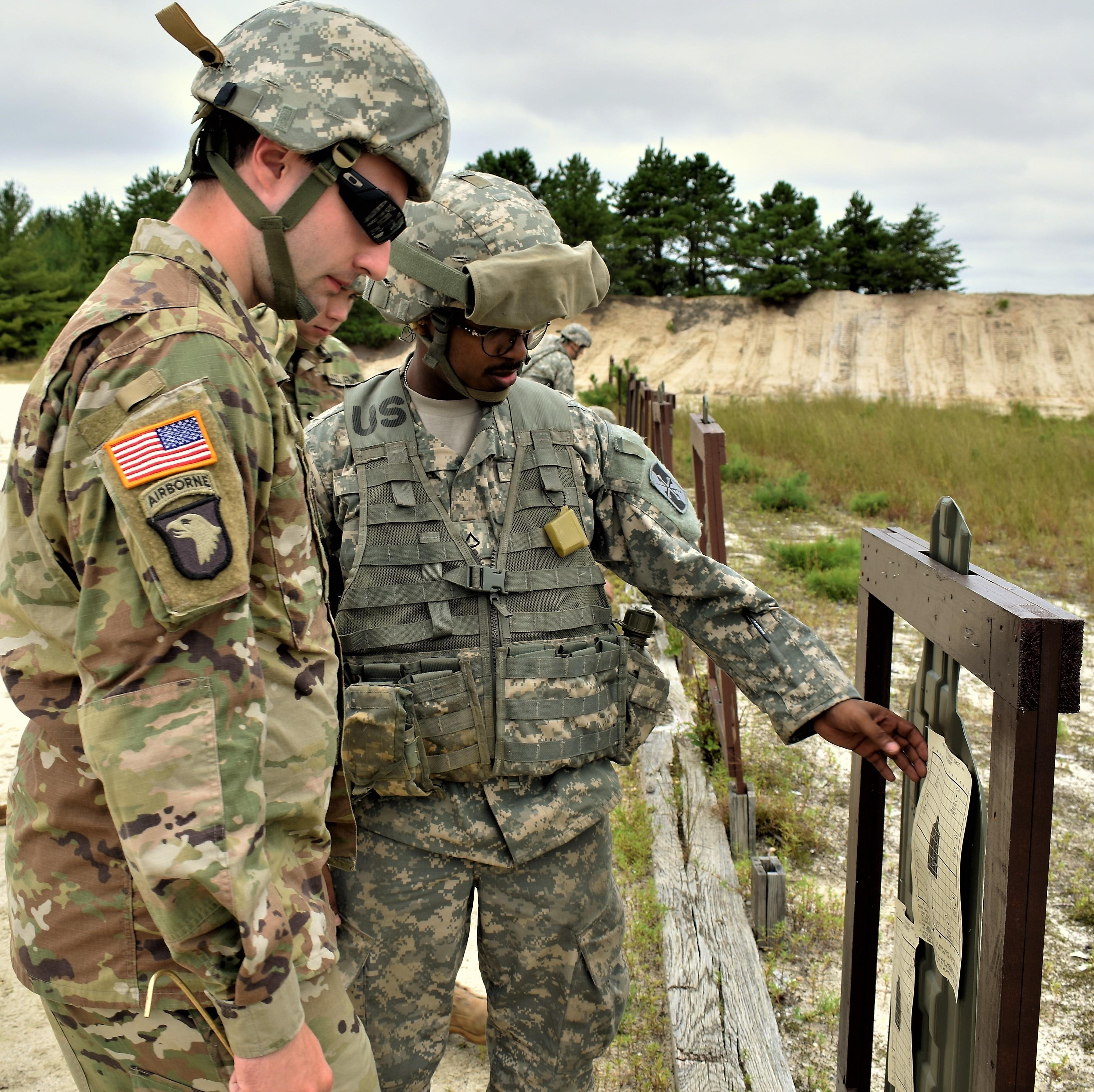 58th EMIB soldiers prepare for IWQ at the zero range.